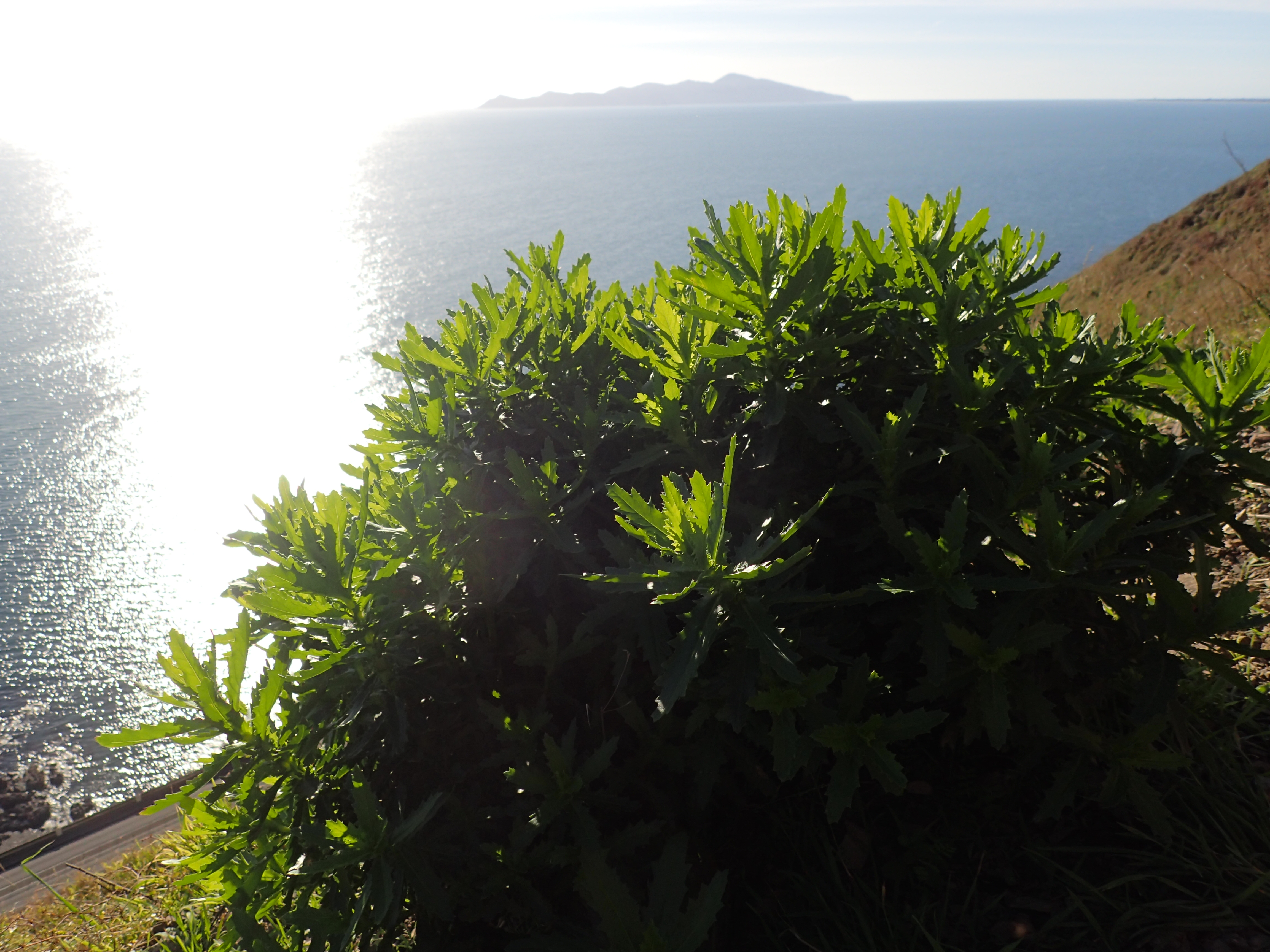 Senecio glastifolius showing green leaves in winter. Kapiti Island (New Zealand) shown on the horizon.